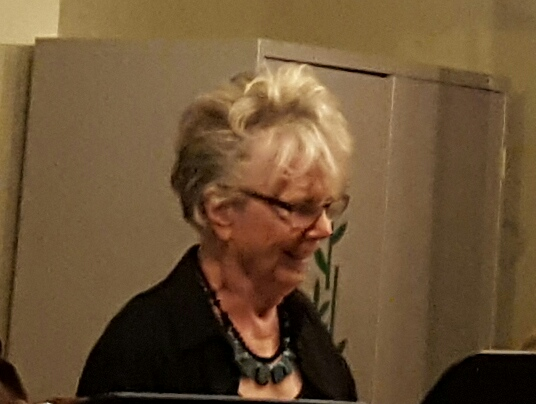 France Arbour, Dorothée Berryman, Mireille Metellus, Béatrice Picard & Luc Morissette photographed in Montréal, Québec, Canada at the Mercier/Hochelaga/Maisonneuve Elders' Home.